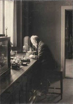 Emil Christian Hansen (1842-1909), Danish microbiologist and mycologist